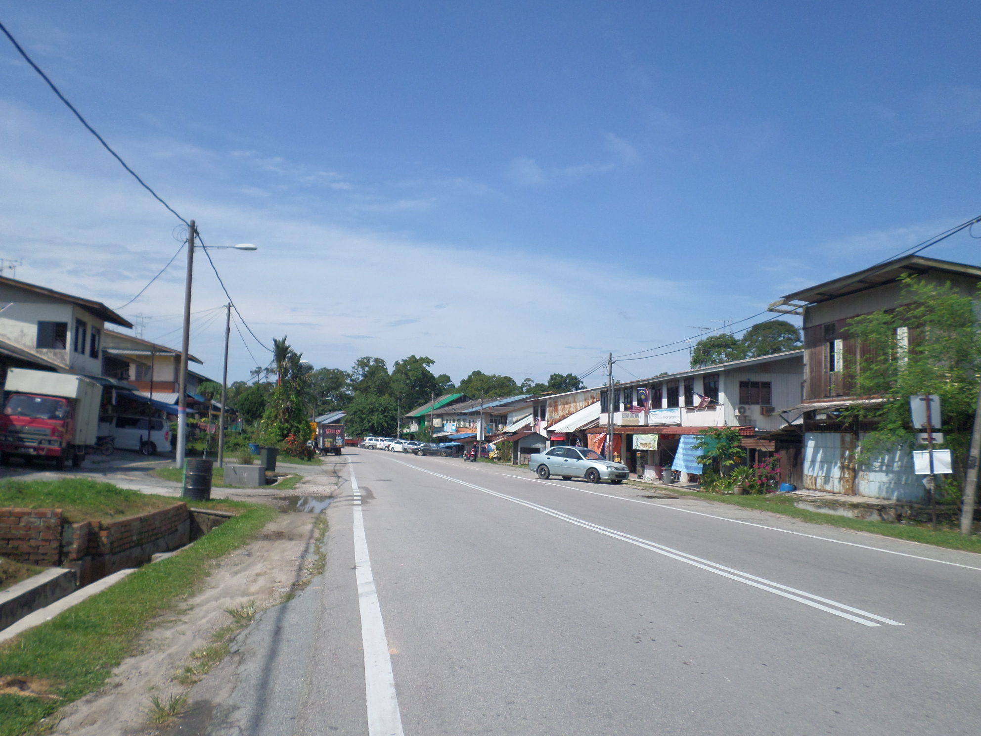 Ulu Choh, Pulai, Iskandar Puteri, Johor Bahru, Johor, Malaysia